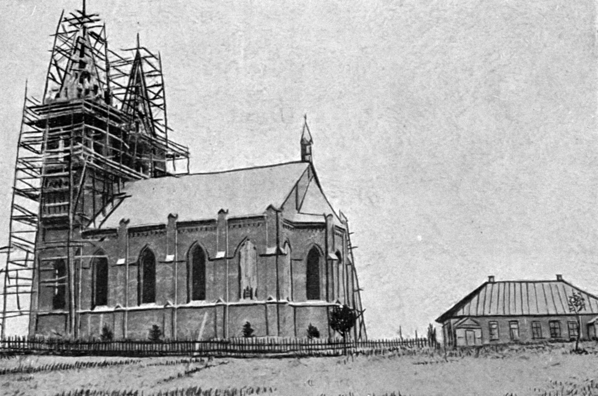 Catholic church of St. Lawrence in Ušačy